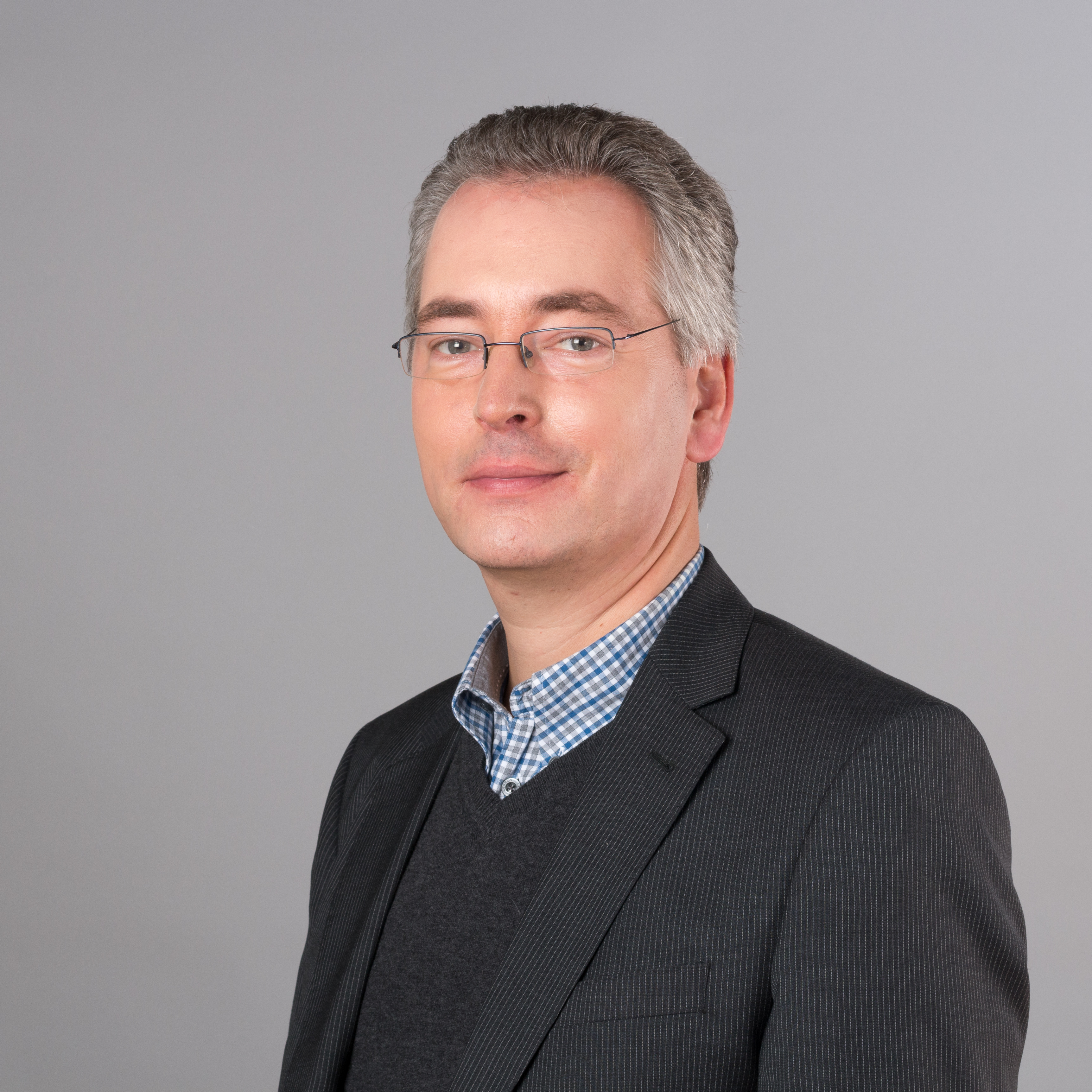 Hans Christian Markert, member of the parliament of North Rhine-Westphalia, Alliance '90/The Greens